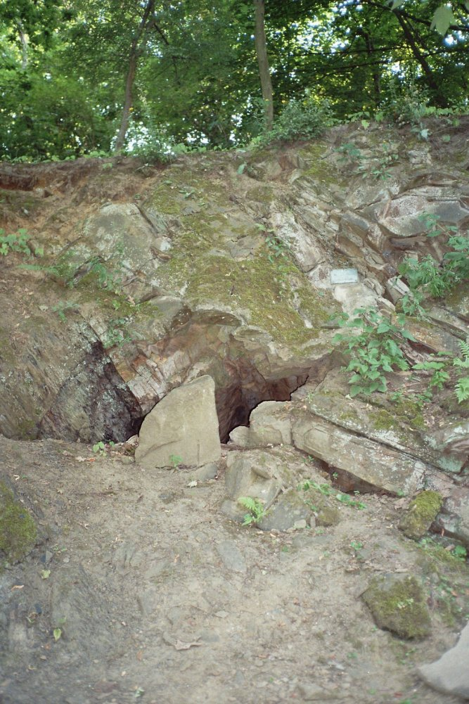 An ancient minework called "Alter Mann" in the german language; Geologischer Garten Bochum, Germany